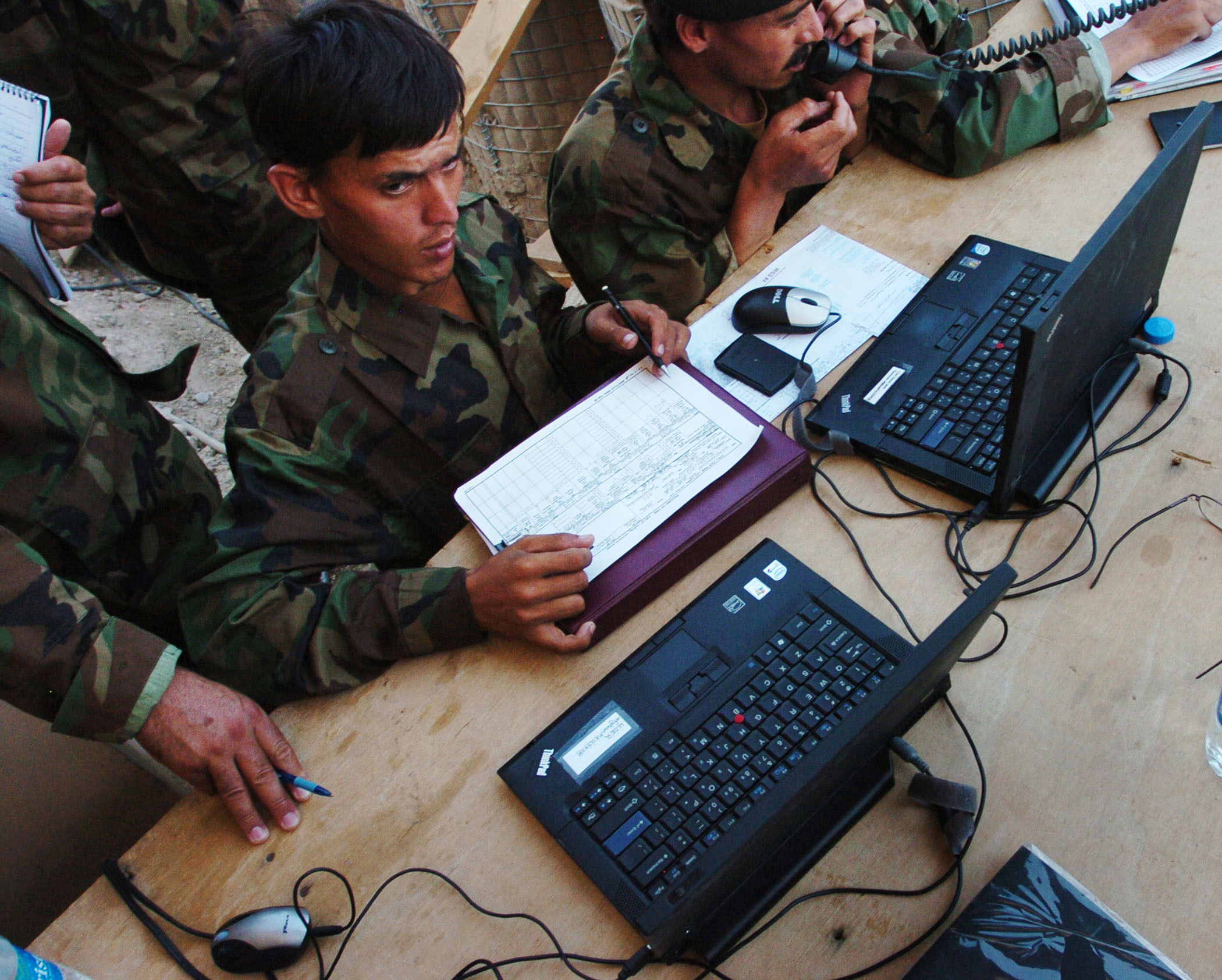 An Afghan national army soldier, with the fire direction control center, looks over data displayed on the Afghan Field Artillery Computer during a live-fire exercise at Forward Operating Base Kalagush, Aug. 2. The AFAC is an Alliance developed system designed to give instant coordinates for field artillery units, allowing for faster firing.